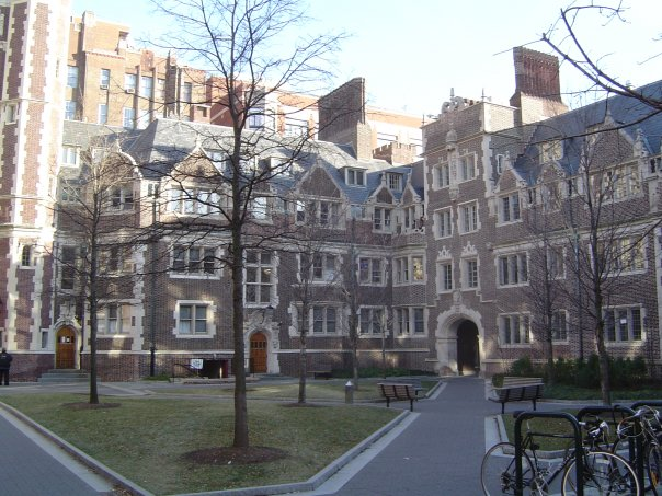 The Quad Courtyard